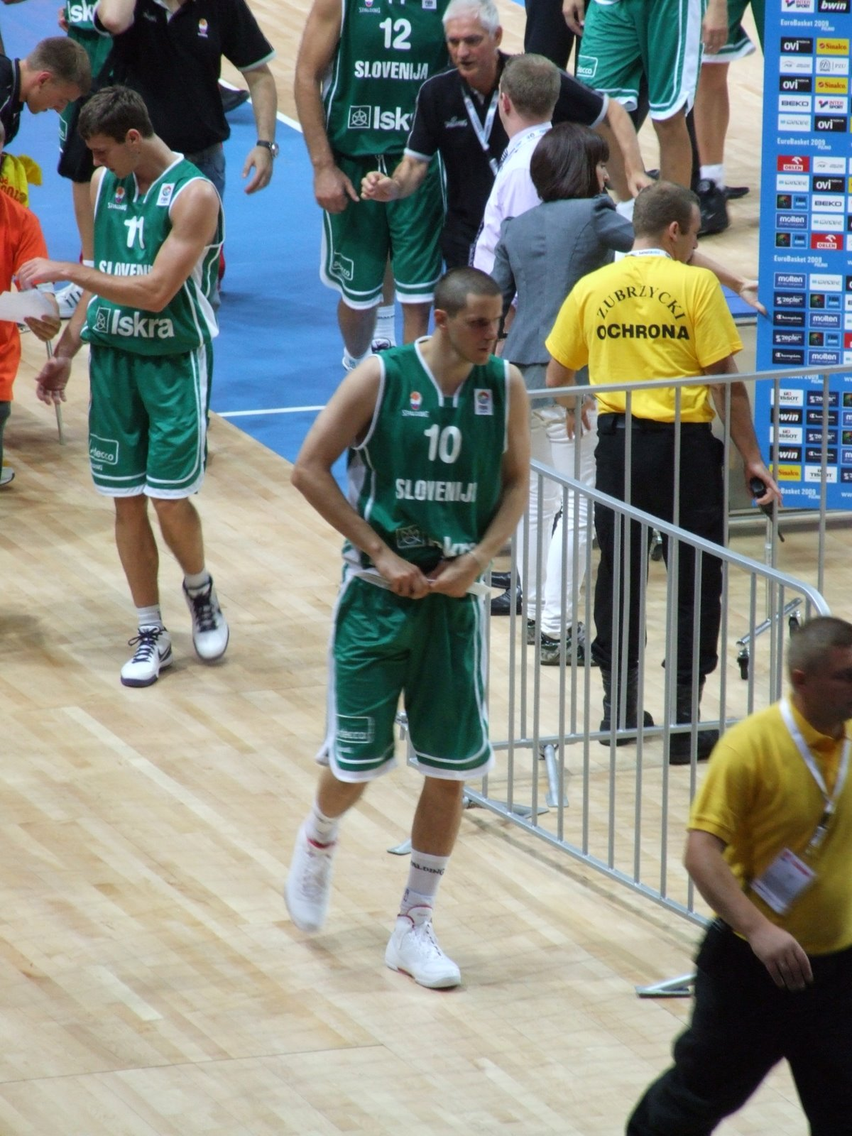 Slovenia vs. Great Britain at EuroBasket 2009.